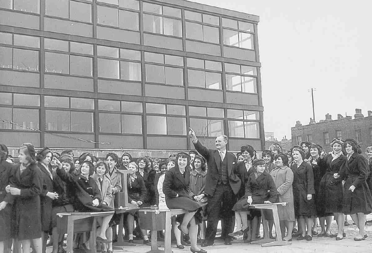 Headmaster Michael Duane welcomes pupils to the new Risinghill School, 4 March 1960. Survey of London Volume 47.